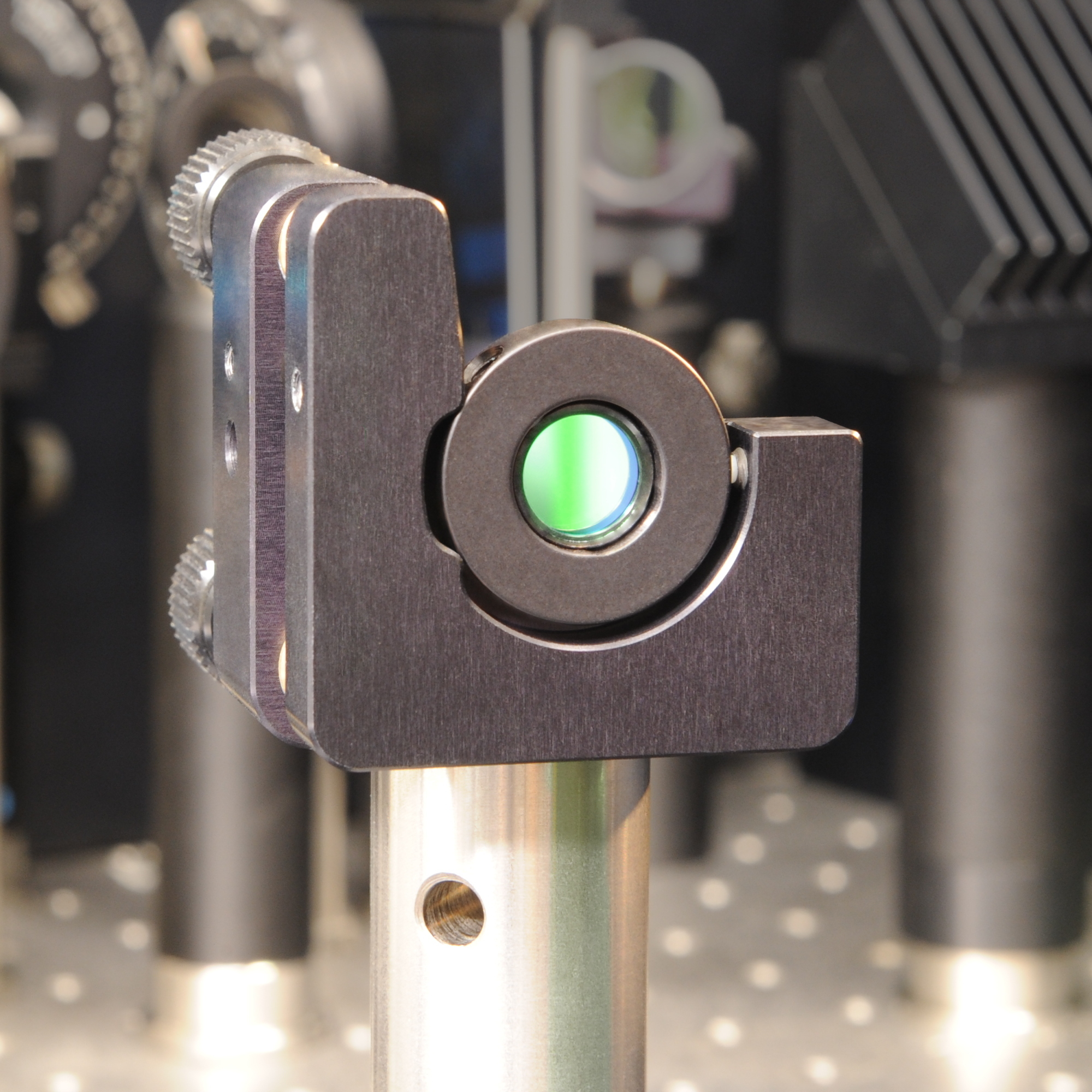 Photograph of an optical interference filter. A stack of thin films coated onto the round 1/2-inch substrate acts as a high-transmitting bandpass filter at 780nm with a pass-band of few nm. Light at other wavelengths in the stop-band a few 100nm around are fully reflected. Over the whole optical spectrum the filter looks semi-transparent, reflecting bright background light in this image.